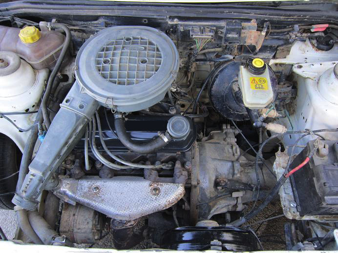 1994 Ford Fiesta Mk3.5 1.1L engine